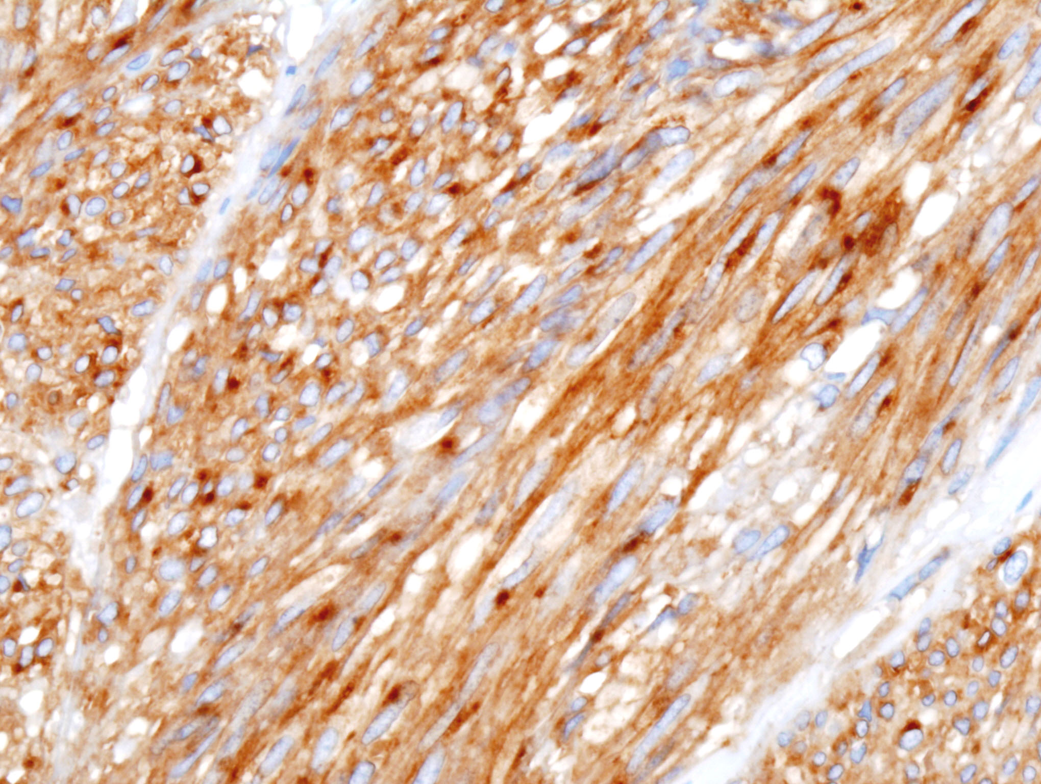 Histopathologic image of gastrointestinal stromal tumor (GIST) arising in the stomach. C-KIT immunostain. The same case as uploaded Gastric_GIST_(1).jpg.